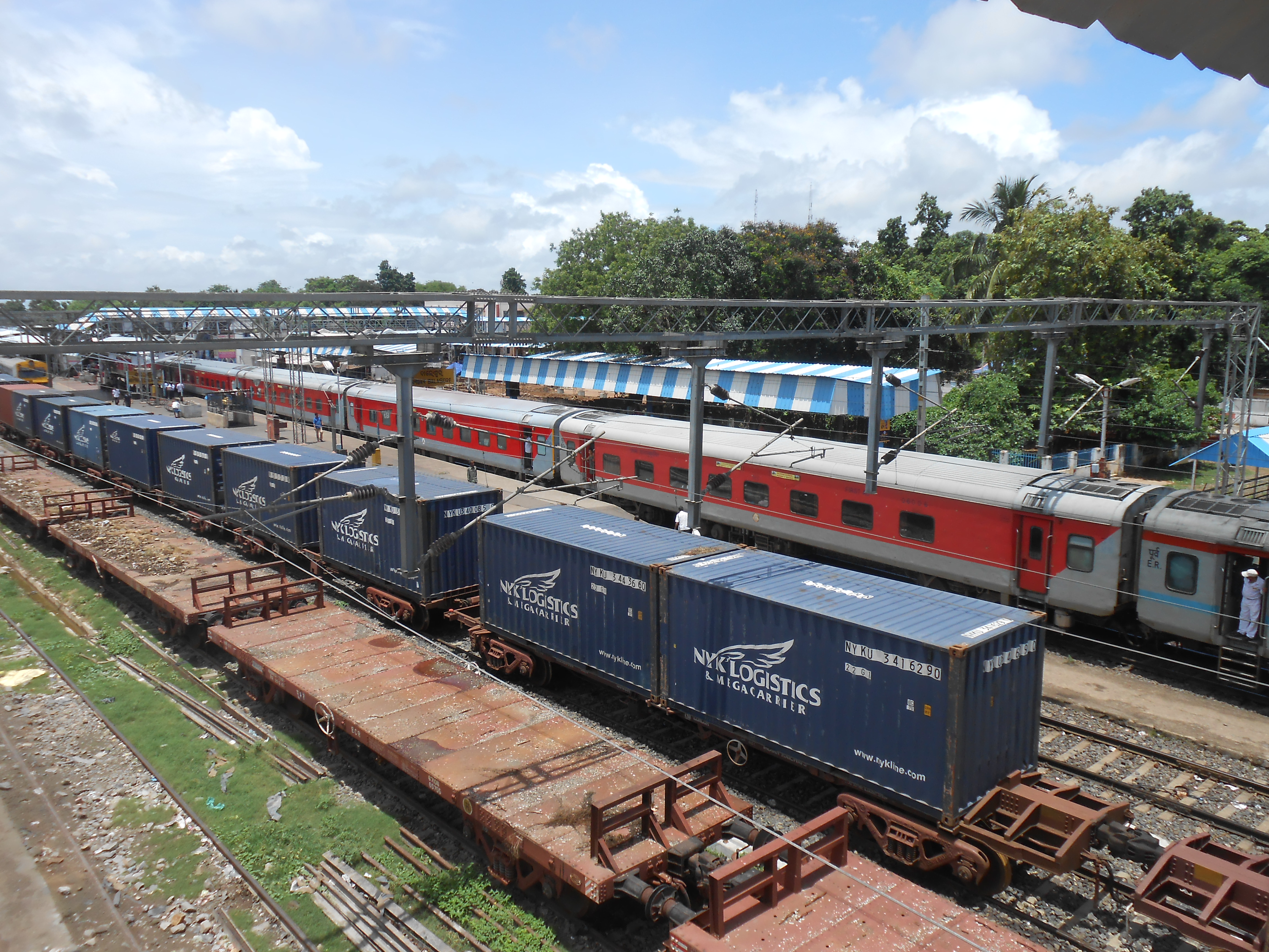 Breathtaking view of Rajdhani Express arrival at BLS